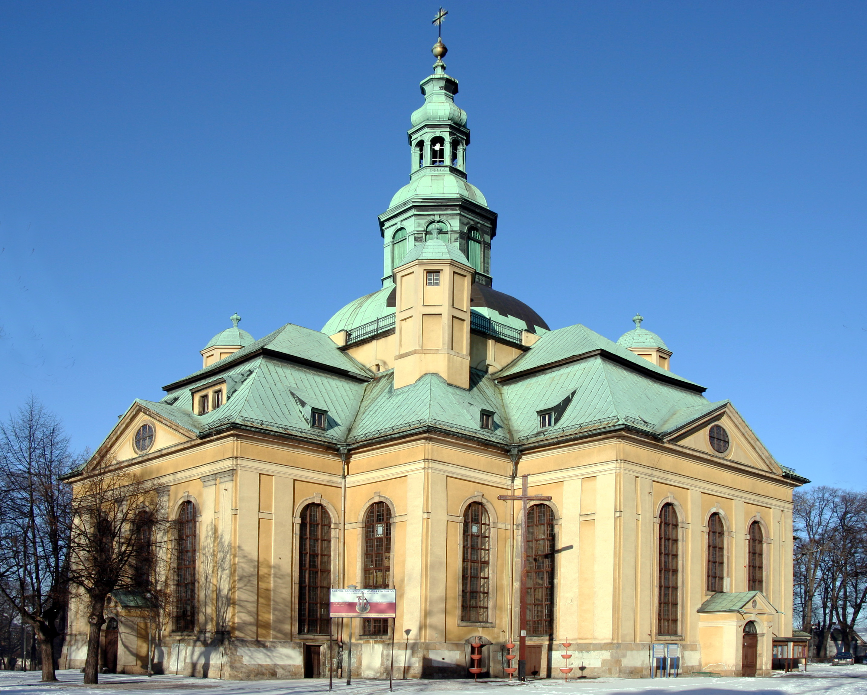 Holy Cross Church Jelenia Gora.